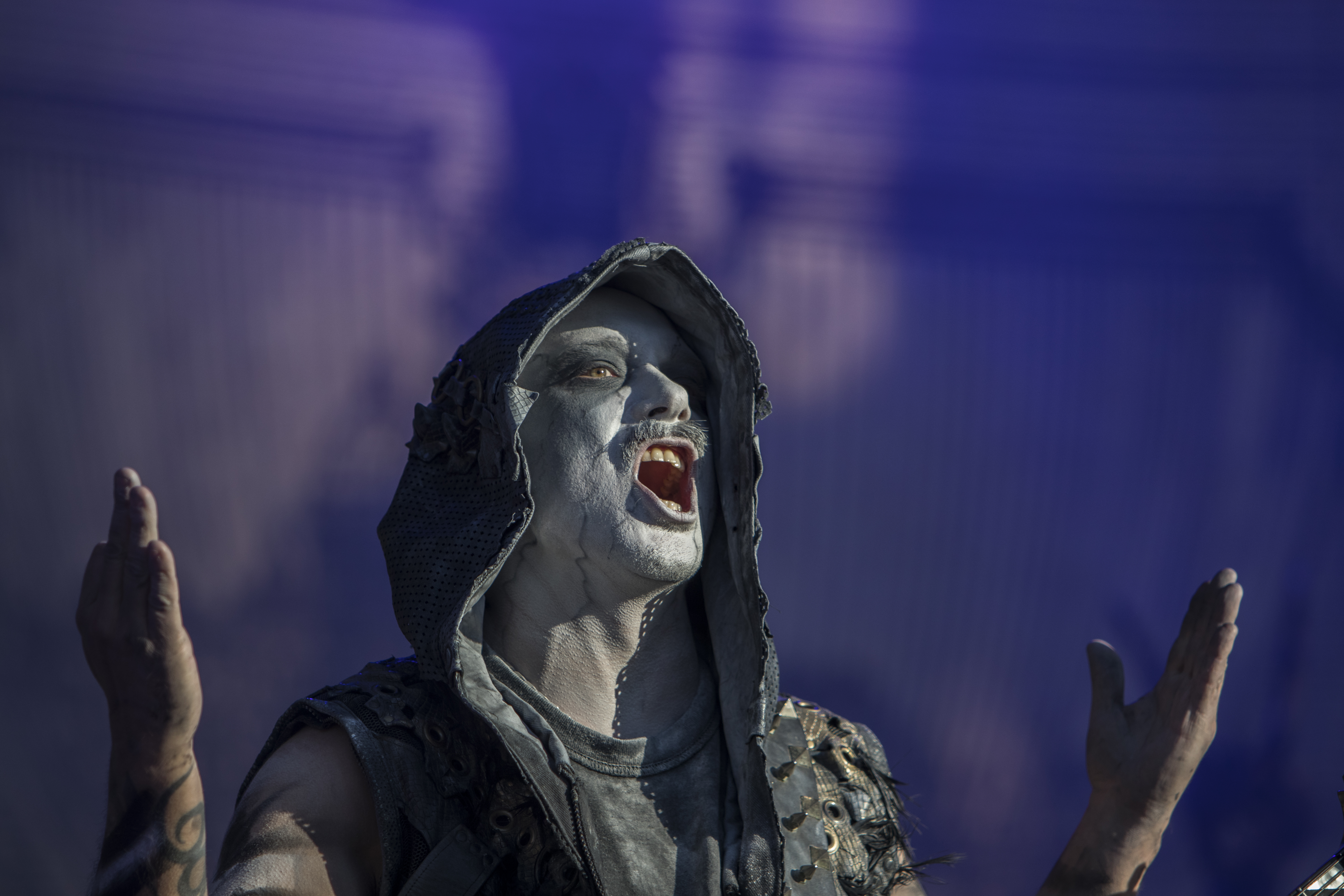 Dimmu Borgir at the 2019 Tuska Open Air Metal Festival in Helsinki, Finland (Kalasatama)